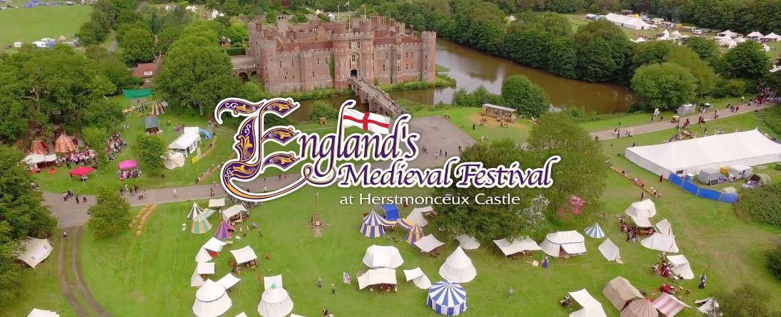 England's Medieval Festival at Herstmonceux Castle